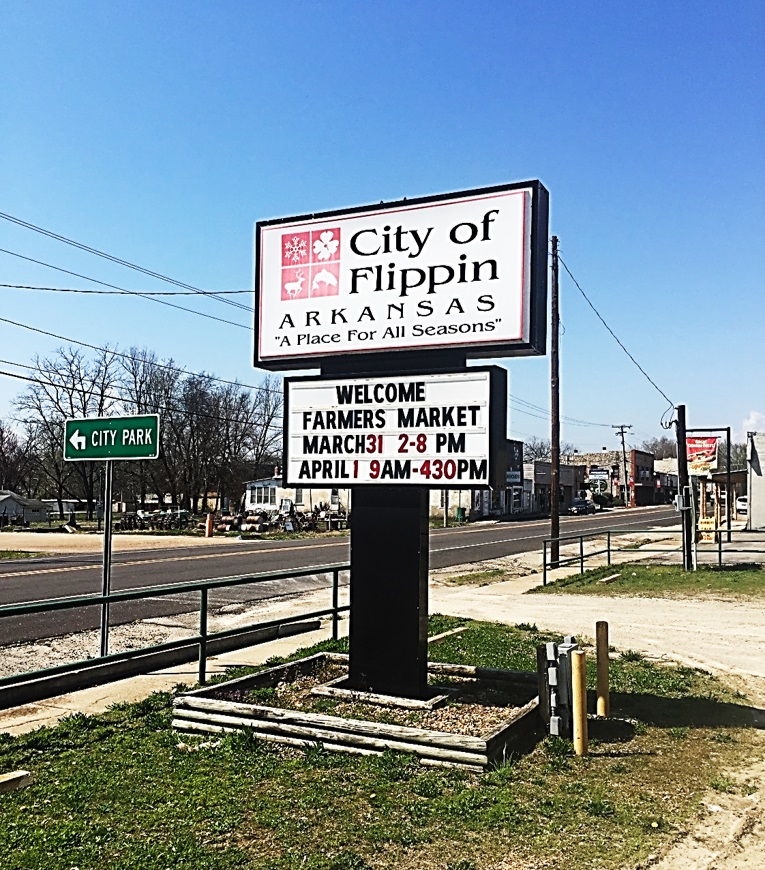 Flippin, Arkansas is a city of about 1,300 people located in the Mississippi Delta region. Flippin requested assistance in developing its farmers market and improving the walking distance between stores in its downtown area. The Local Foods, Local Places program helps create more livable places by promoting local food economies. Following a two-day workshop, the community will receive a customized report detailing how it can shift from visualizing goals to obtaining tangible outcomes.